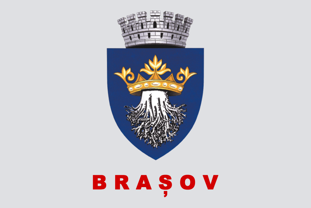 Flag of Braşov municipality